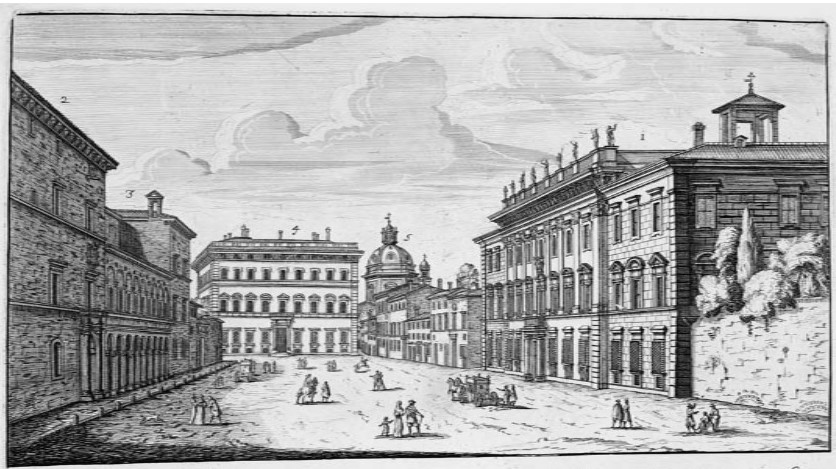 The Piazza dei Santi Apostoli in Rome. The large building on the right is the Palazzo Chigi. The cupola visible in the distance on the right is the church Santa Maria di Loreto